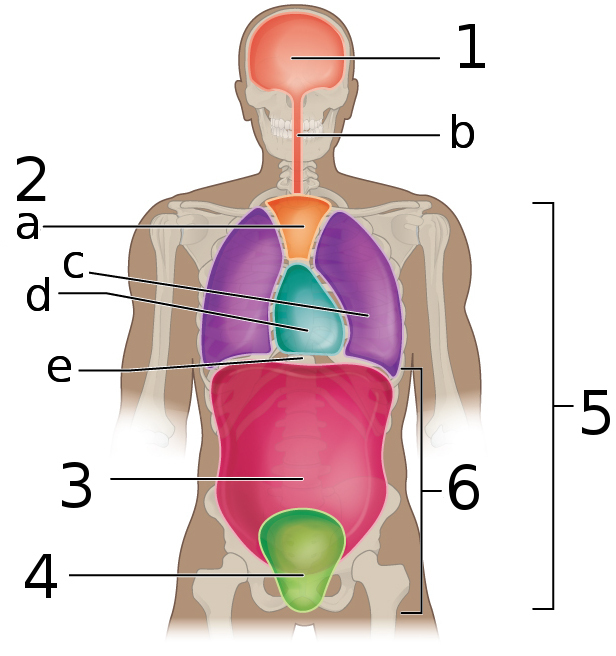 Caption:The ventral cavity includes the thoracic and abdominopelvic cavities and their subdivisions. The dorsal cavity includes the cranial and spinal cavities. Legend: 1. Cranial cavity 2. Thoracic cavity 3. Adbominal cavity 4. Pelvic cavity 5. Ventral body cavity (both thoricic cavity and abdominopelvic cavities) 6. Abdominopelvic cavity 7. Dorsal body cavity a. Superior mediastinum b. Vertebral cavity c. Pleural cavity d. Pericardial cavity within the mediastinum e. Diaphragm URL:htt URL: Other versions: En source Labeled entire image En source duplicate Frontal view only labels Frontal view only — en Lateral view only — en Lateral view only — labels